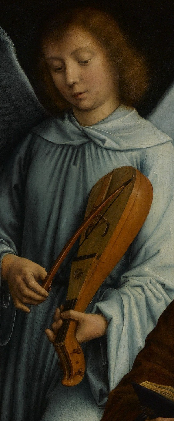 Detail from "Virgin among Virgins" (1509), by Gerard David